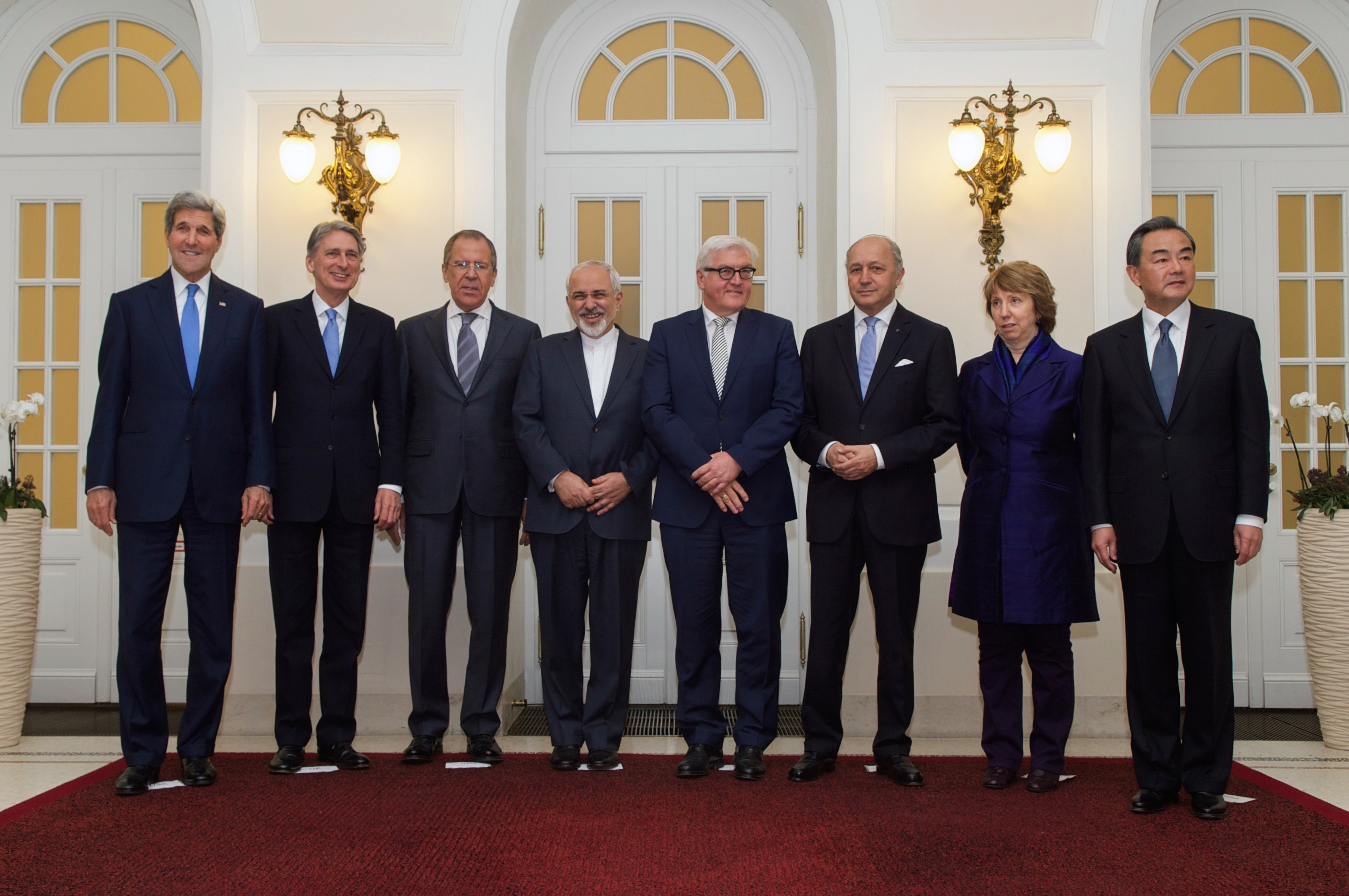 Foreign Ministers from the P5+1 nations, the European Union, and Iran - John Kerry of the United States, Philip Hammond of the United Kingdom, Sergey Lavrov of Russia, Javad Zarif of Iran, Frank-Walter Steinmeier of Germany, Laurent Fabius of France, Baroness Catherine Ashton of the EU, and Wang Yi of China in Vienna, Austria, on November 24, 2014, amid multilateral negotiations with Iran about the future of its nuclear program.